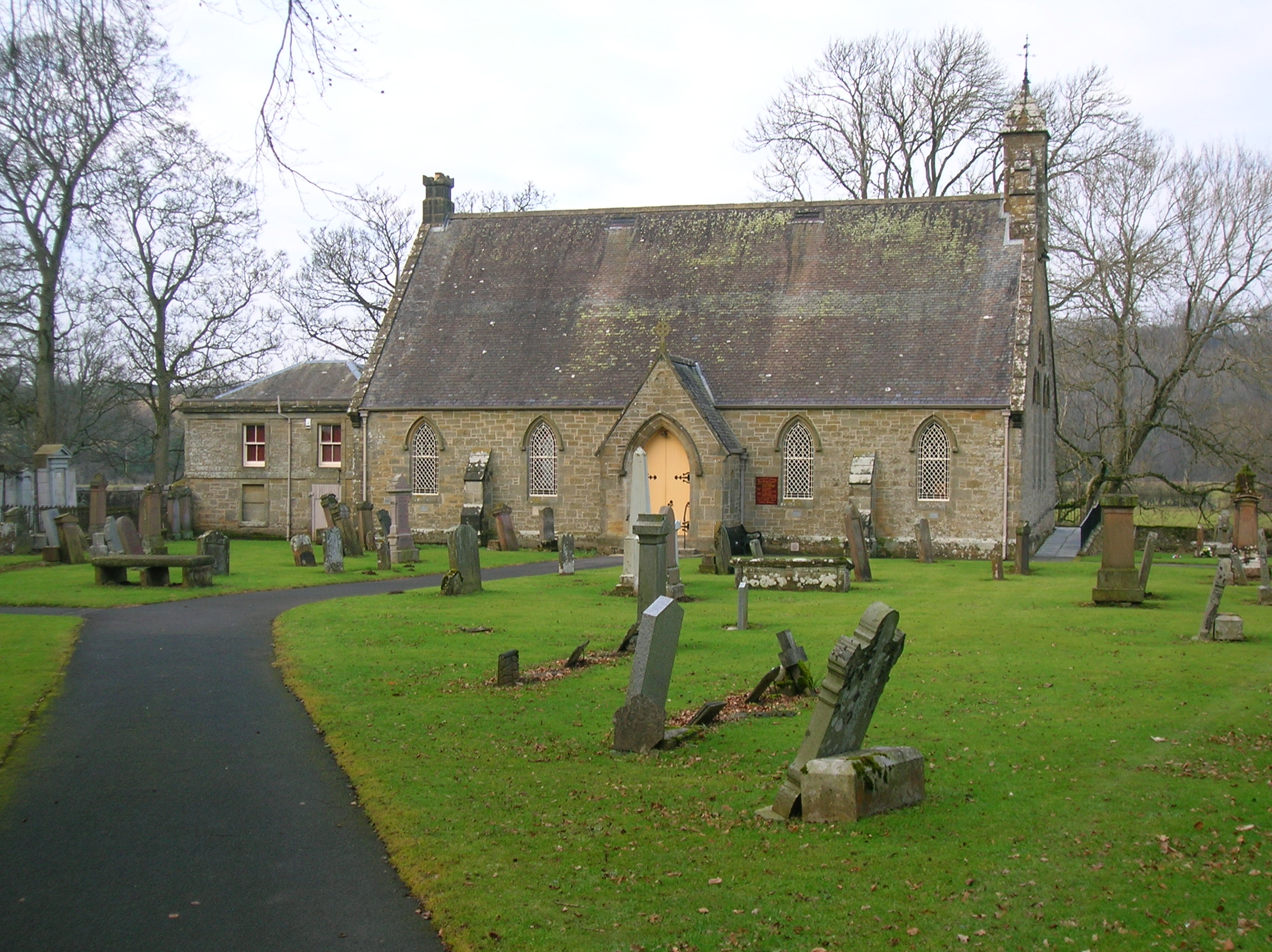 Stair parish Church, East Ayrshire, Scotland.